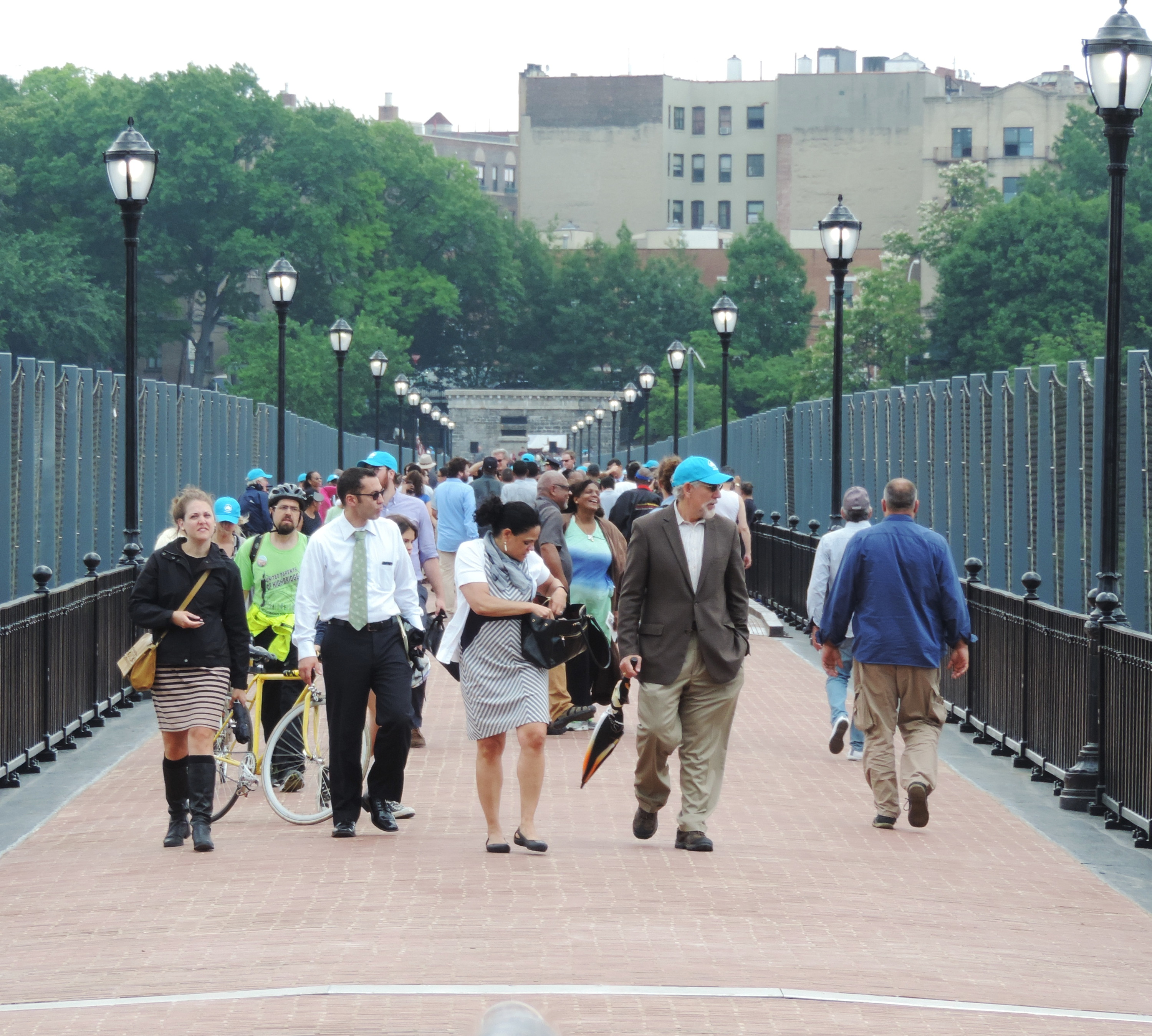 Looking east as walkers arrive on a slightly hazy midday.